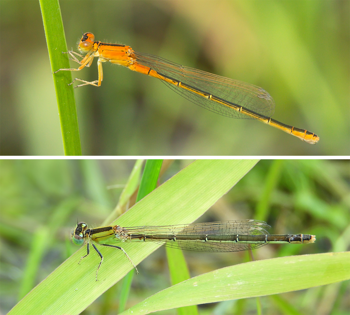 Females of Scarce Blue-tailed Damselfly, Ischnura pumilio. Orange-coloured immature (top) and mature specimen (bottom). Location: North-eastern Lower Saxony, Germany.